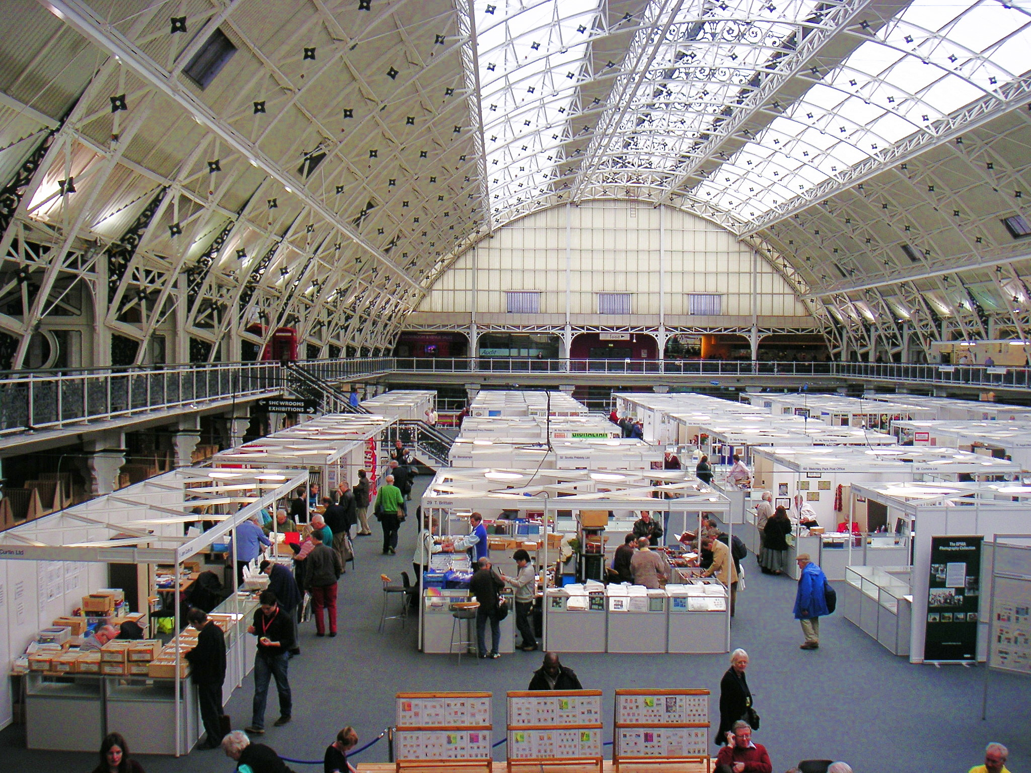 Photograph of Spring Stampex 2011 stamp show at the Business Design Centre, Islington, London and taken on Saturday 26 February 2011. Showing stamp dealers booths on the first floor. All the dealers are members of the Philatelic Traders Society (PTS).